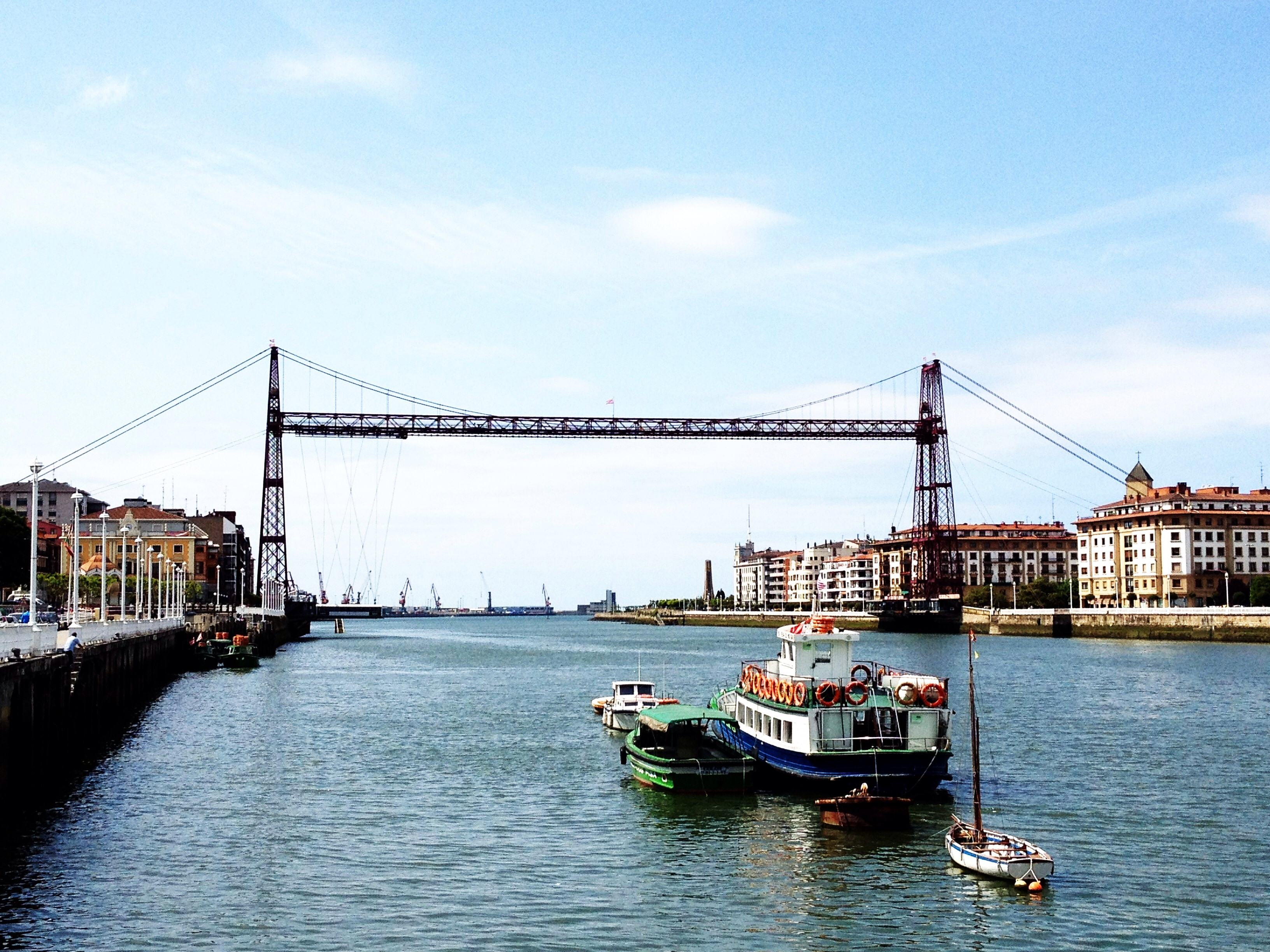 Vizcaya Bridge, an UNESCO World Heritage Site